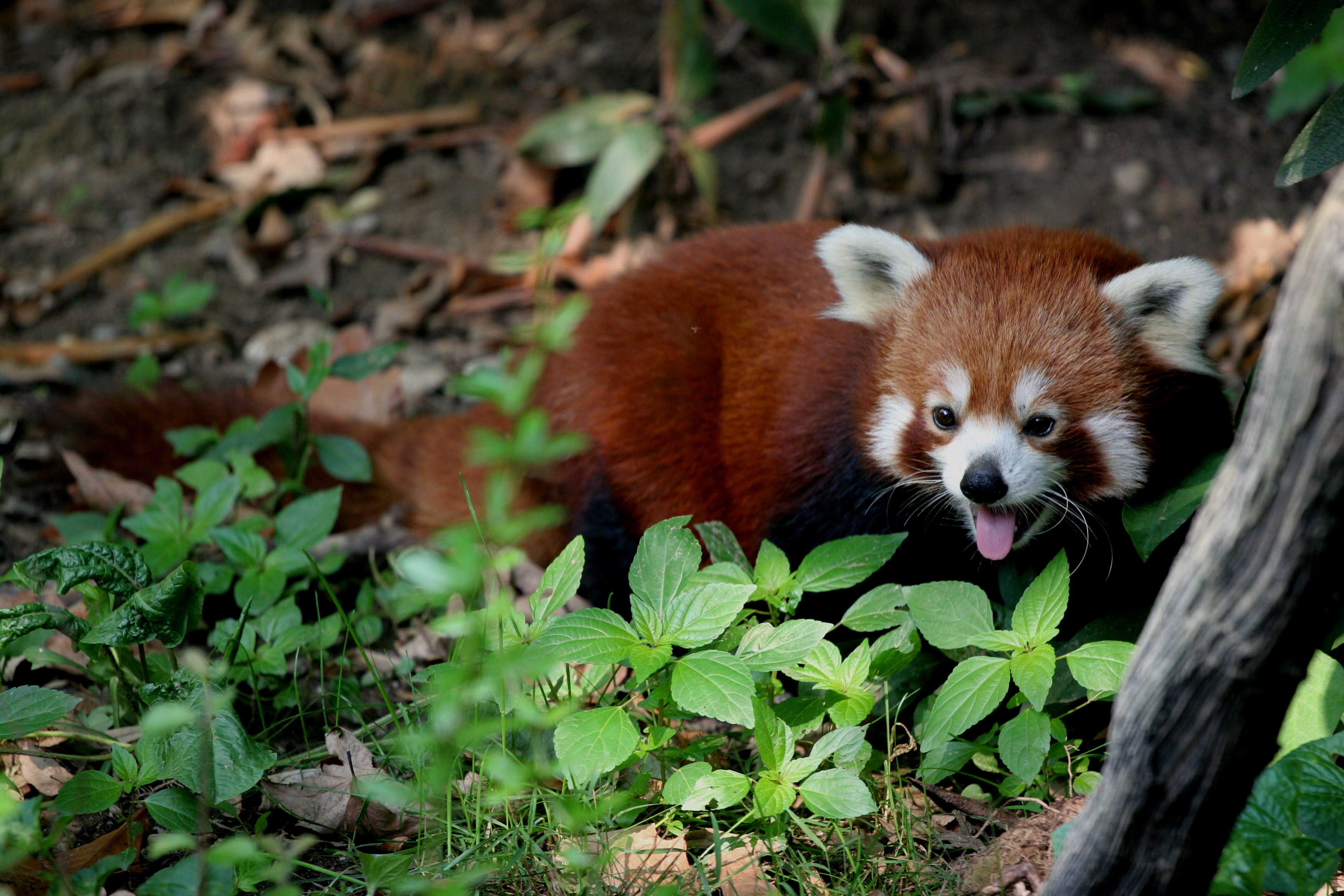 Red Panda at the Central Park Zoo, NY